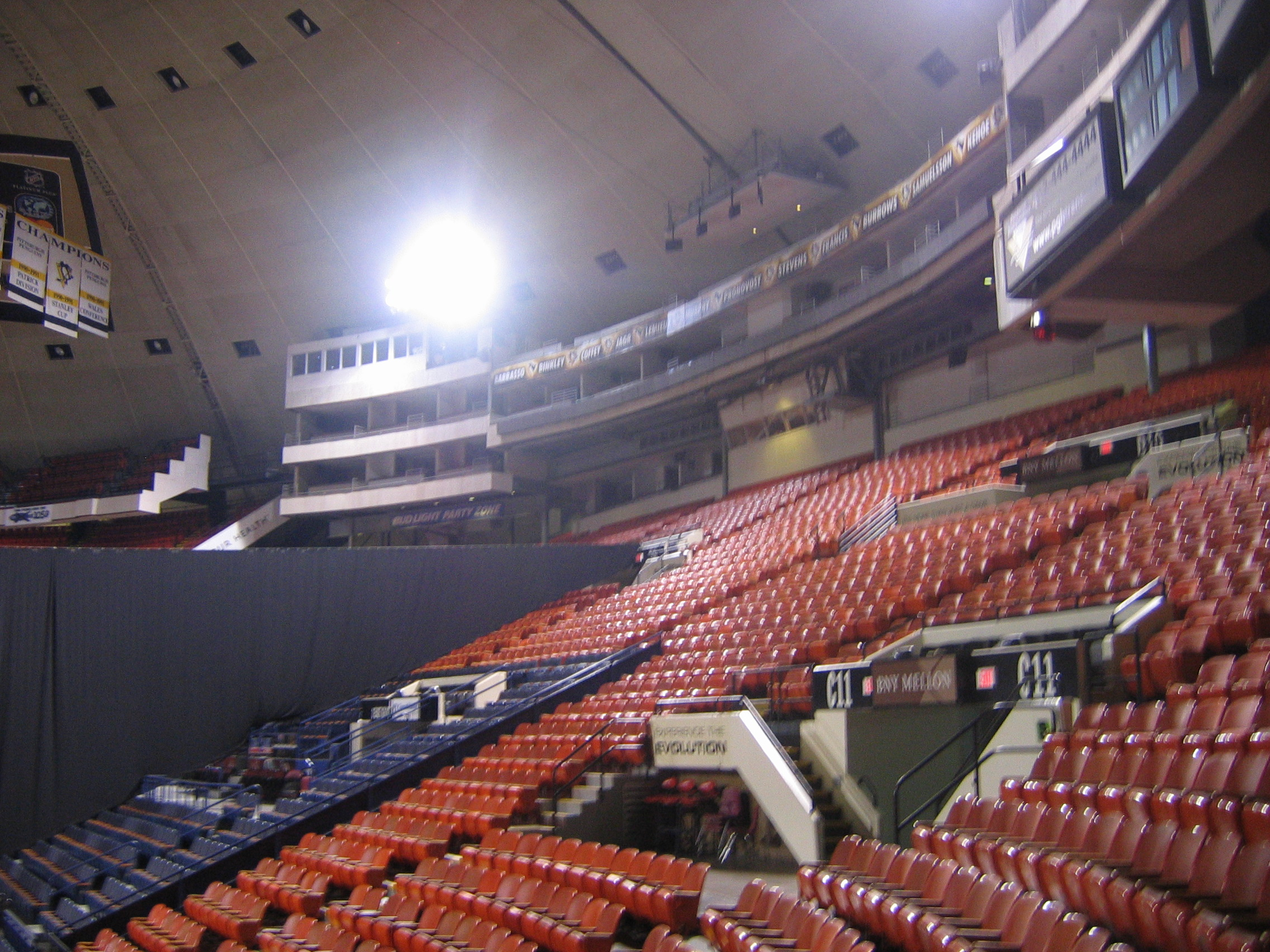 Football & Basketball Facilities Pittsburgh Arena